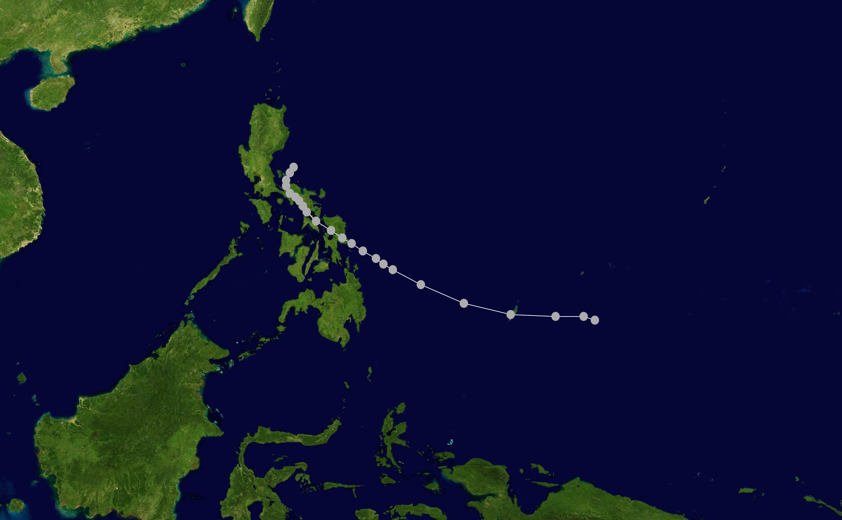 Track of 25-W from November 30, 1939 through December 6, 1939. Due to the age at witch this storm was observed from, one cannot rely on this track to be 100% accurate, but rather just a reference as to where the storm happened and the relative direction it traveled.